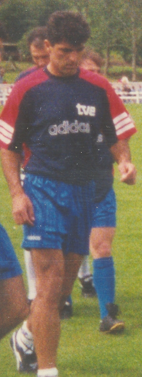 Ex-footballer Miguel Ángel Nadal during a training session.